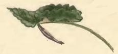 Stainton’s Natural History of the Tineina (1855–1873): Coleophora wockeella mined leaf of Betonica officinalis with a larva-case attached